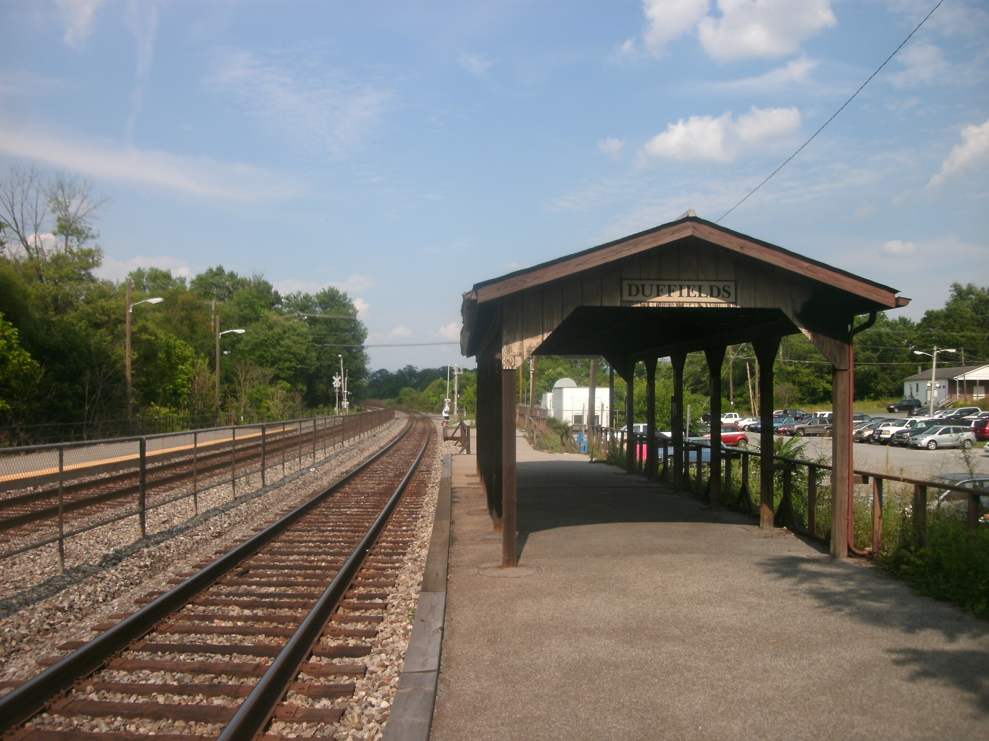 The Duffields station facing Washington-bound on the Washington-bound platform.